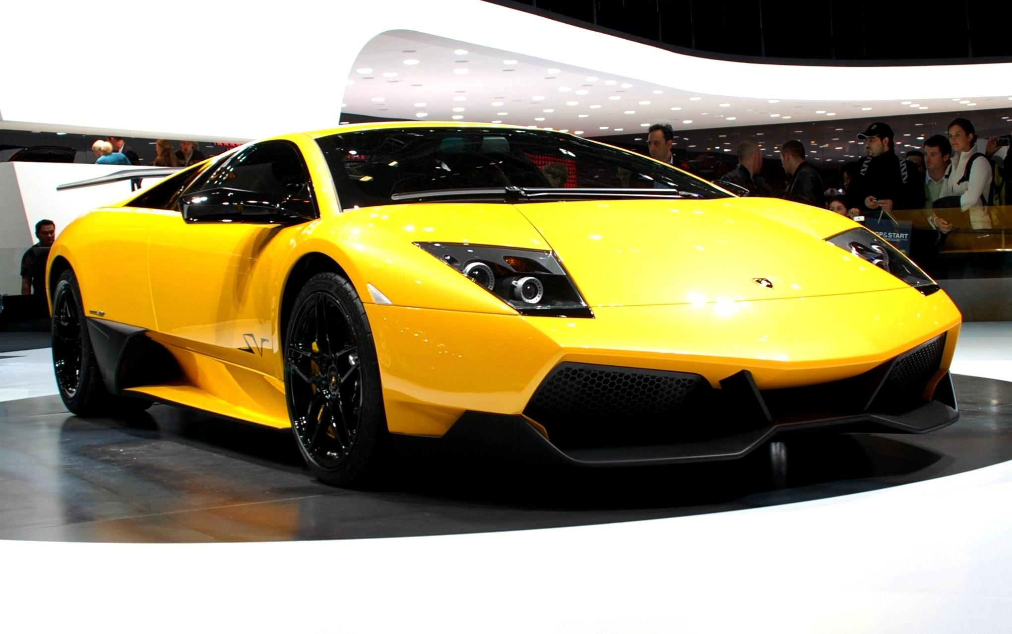 Picture of the new Lamborghini Murciélago SuperVeloce, which is limited to 350 pieces. Taken at the 79. Autosalon in Geneva.